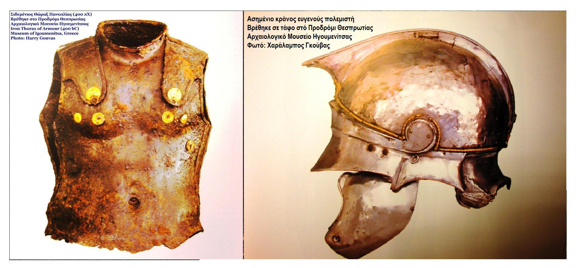 Thesprotian armour and helmet in Arghaelogical Museum of Igoumenitsa, Greece